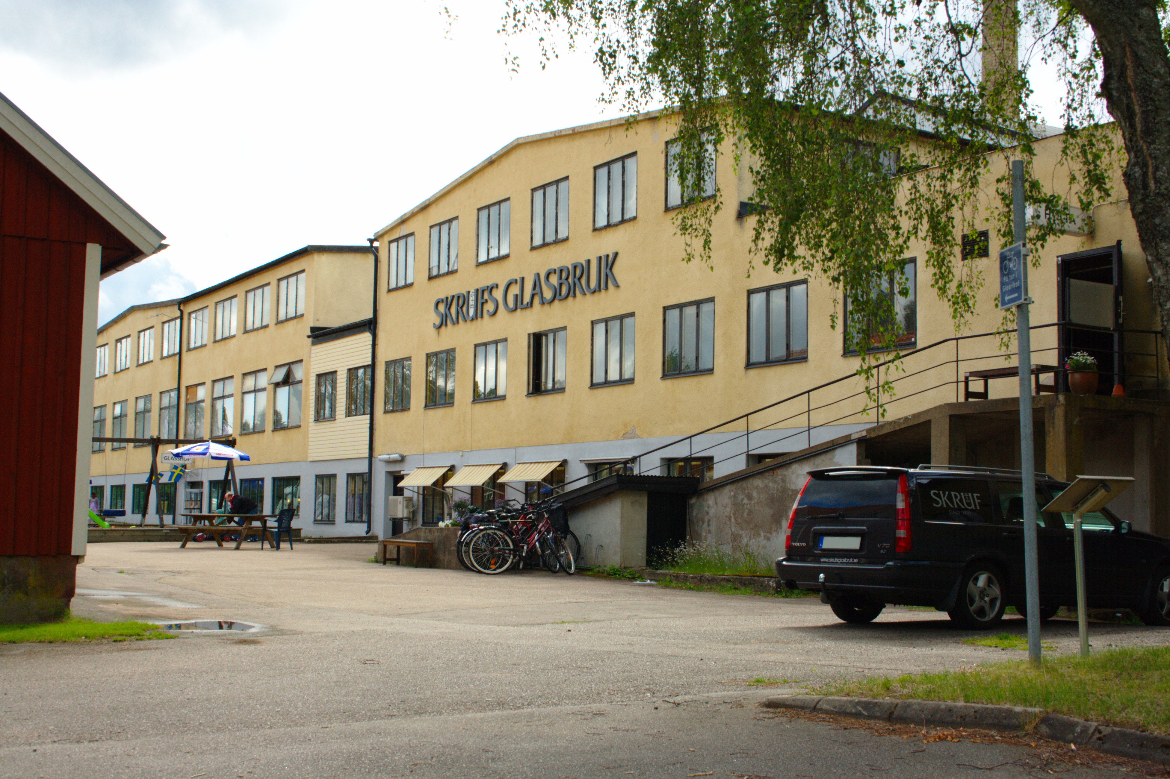 Skrufs glassworks in Lessebo municipality